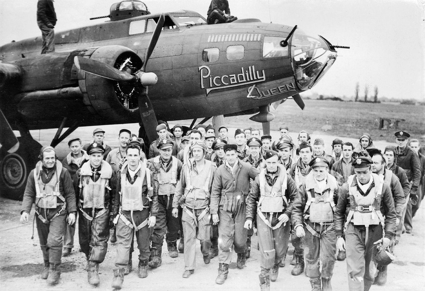 Bomber crews of the 385th Bomb Group return to base following a mission, they walk past a B-17 Flying Fortress (serial number 42-30251) nicknamed "Piccadilly Queen". Image stamped on reverse: 'Planet News.' [stamp], 'Passed for publication 6 Nov 1943.' [stamp] and '291750.' [Censor no.] Printed caption on reverse: 'US AIR FORCE IN GREAT DAYLIGHT OFFENSIVE ON EUROPE. The great daylight offensive against continues against enemy continues, targets in Germany, France and Belgium being attacked by great formations of the bombers and fighters of the US Army Air Force and the RAF. Photo shows: Some of the Flying Fortress crews after their return to an operational station in Britain from the great raid on the Ruhr. No 6th Nov 1943. PN.'